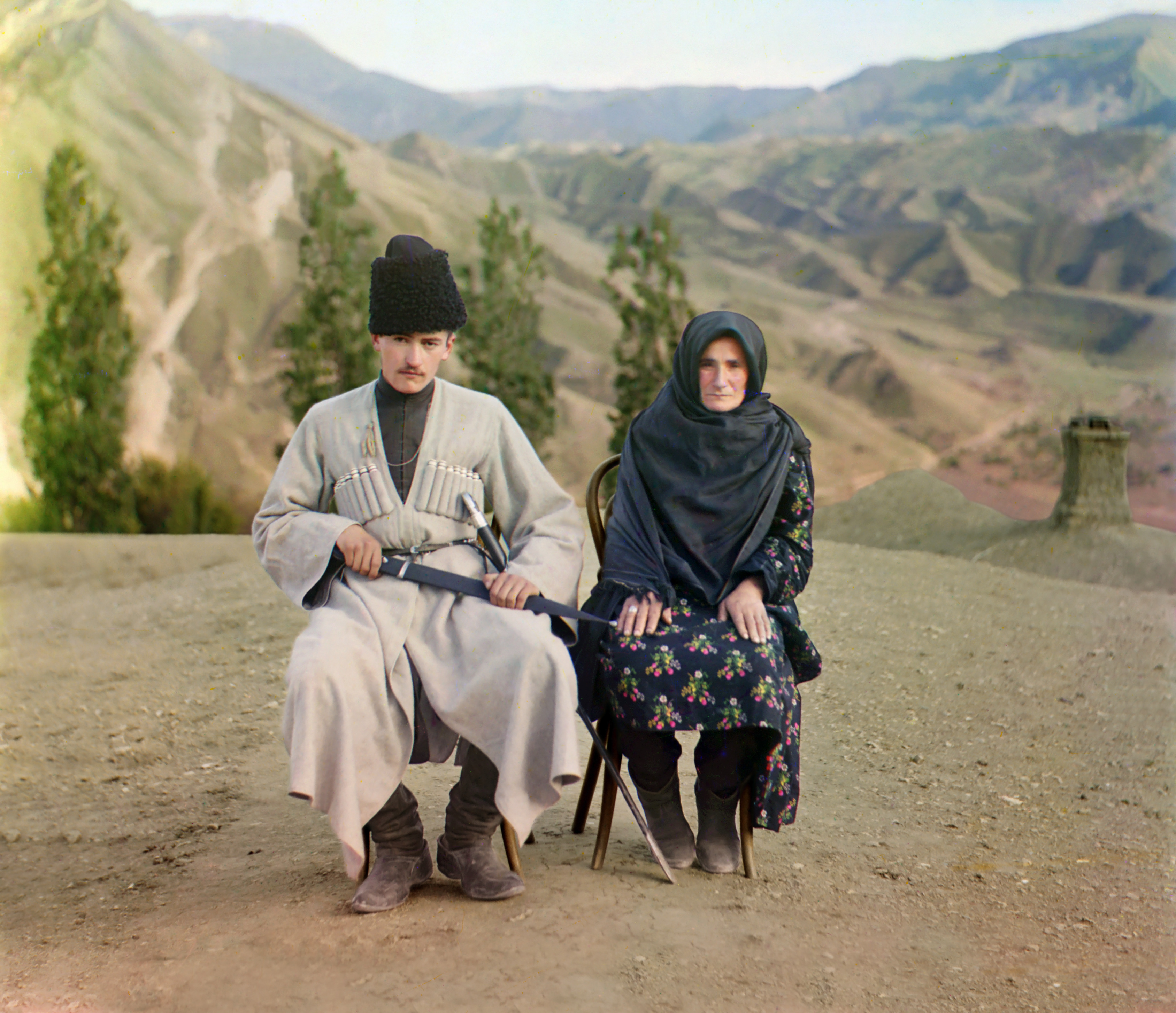 Original Description: "Dagestani types. Man and woman posed outdoors."